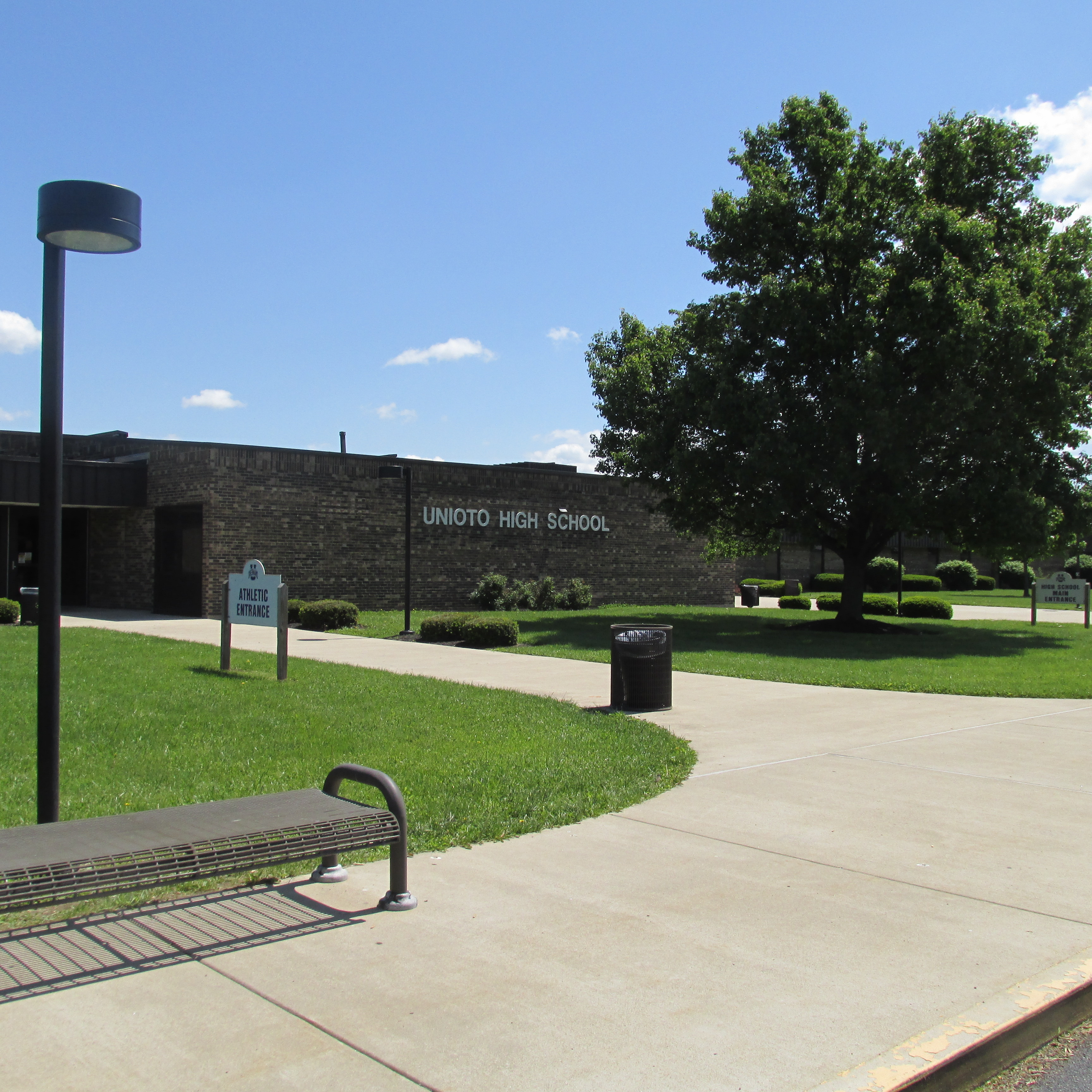 Unioto High School located in Chillicothe, Ohio..